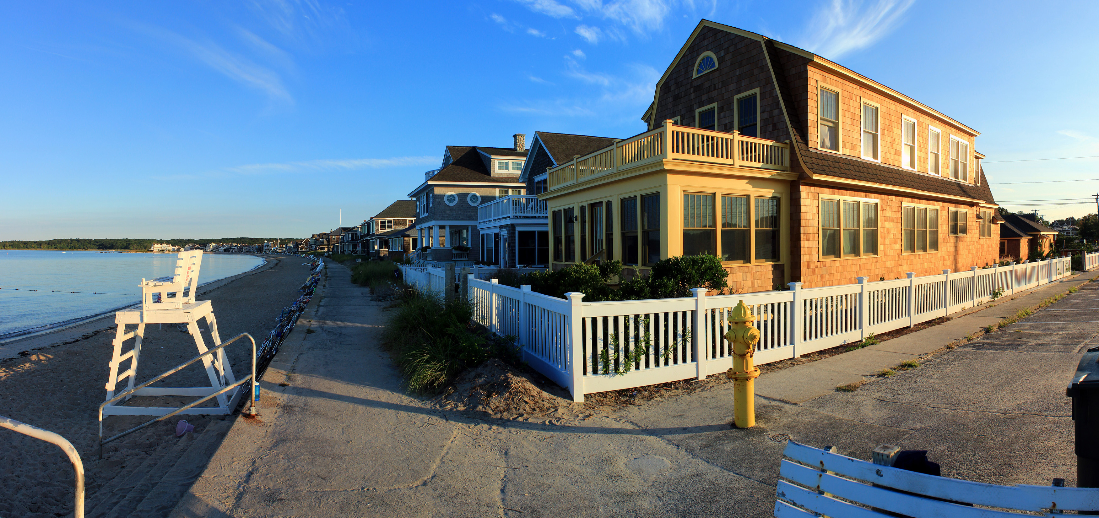 Boardwalk, GLP